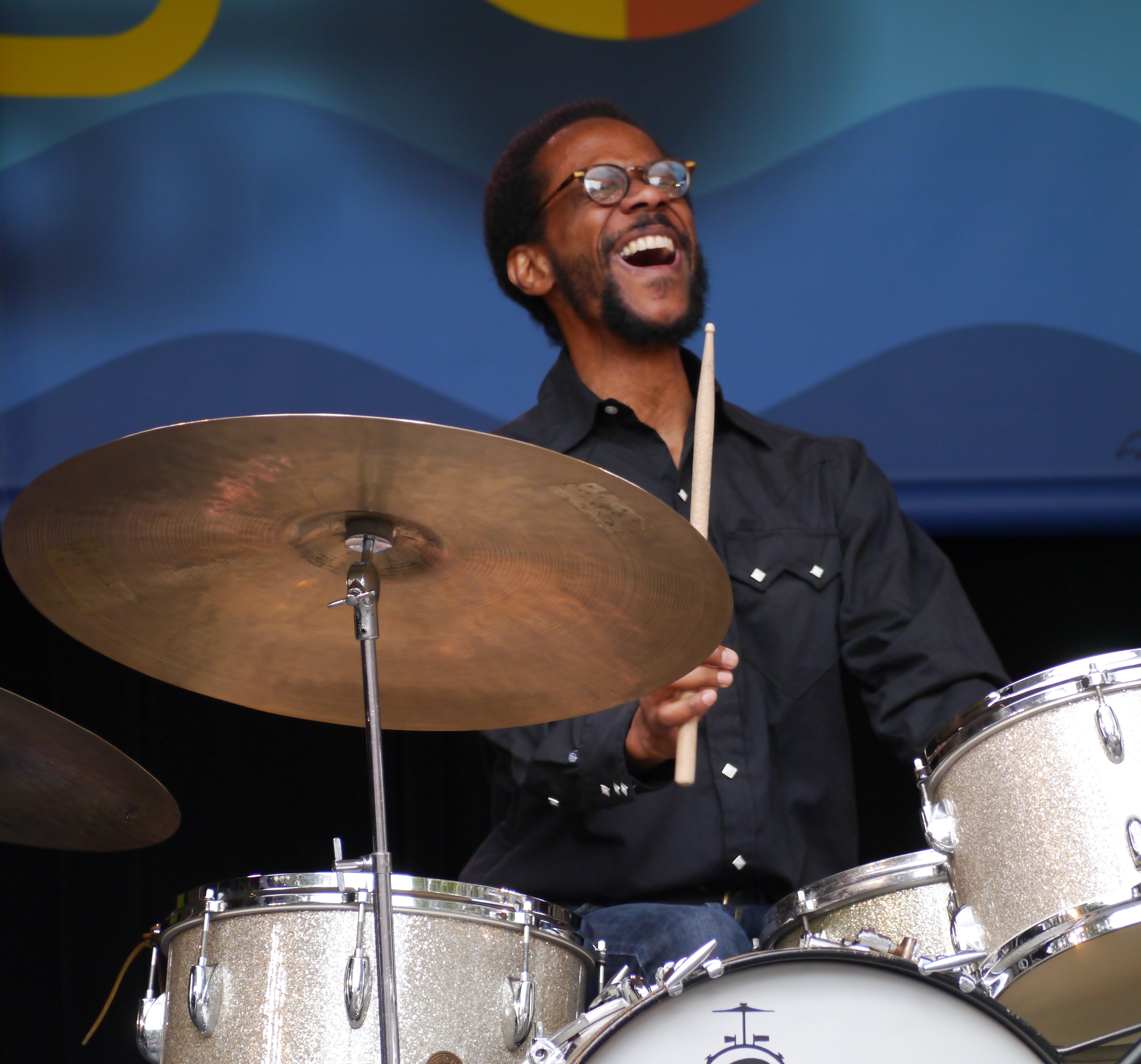 Brian Blade performs with his Fellowship band at the 2014 Monterey Jazz Festival.